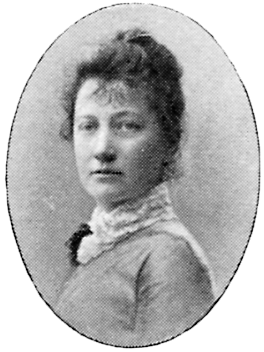 Image scanned from the book "Svenskt Porträttgalleri XX - Arkitekter, Bildhuggare, Målare m.fl. " ("Swedish Portrait Gallery XX - Architects, Sculptors, Painters, ") published 1901